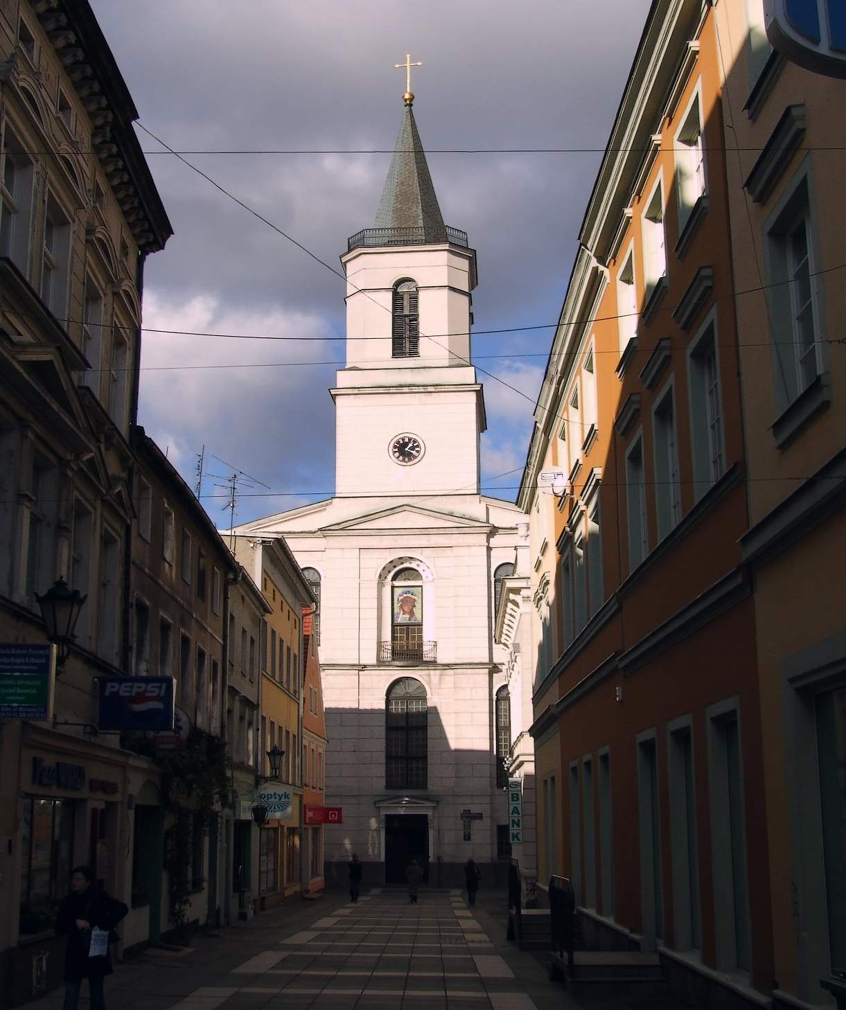 Our Lady of Częstochowa Church in Zielona Góra